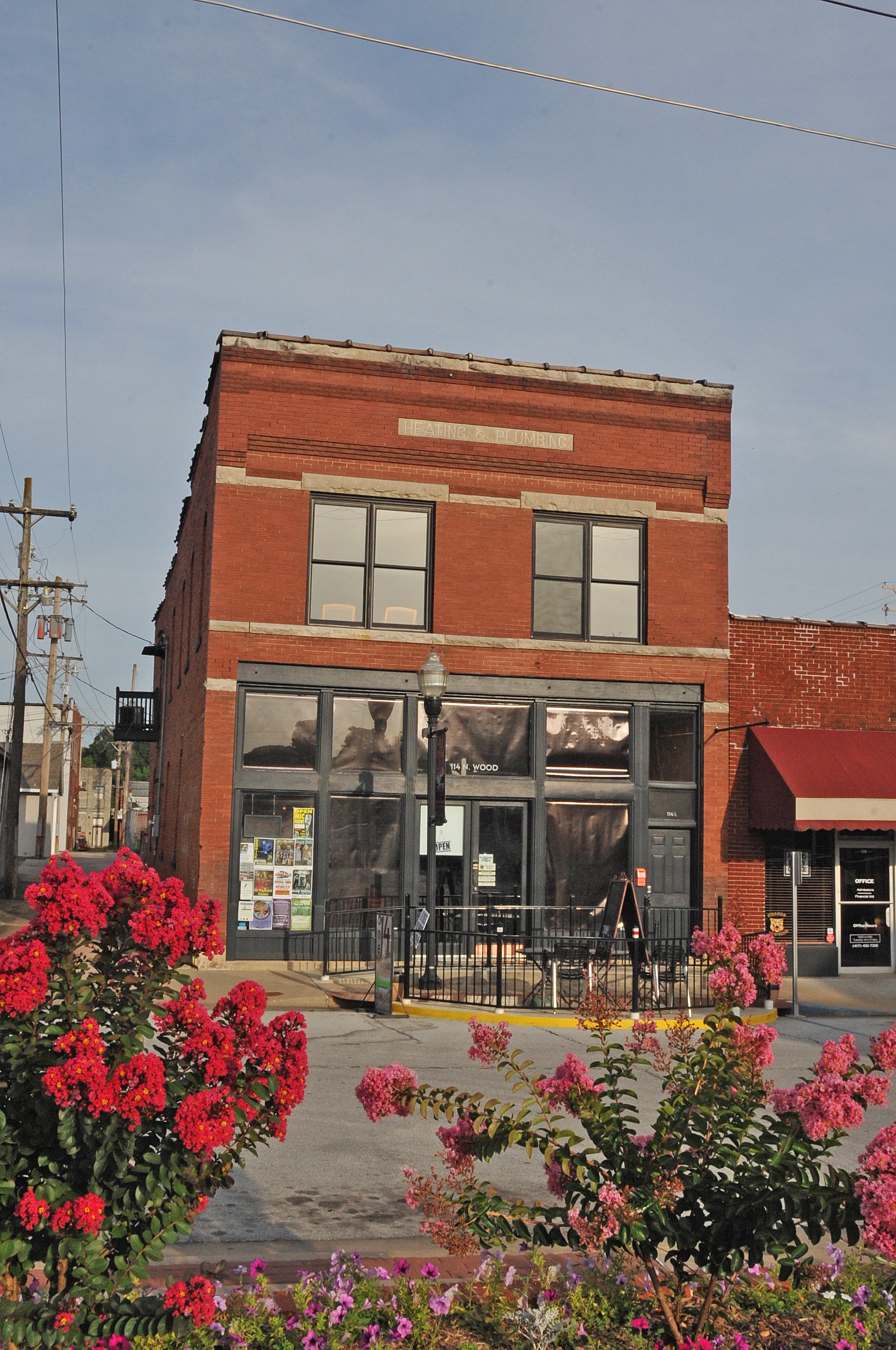 STORE AT 114 NORTH WOOD STREET BUILT IN 1905 AND HAS “PLUMBING AND HEATING” INSCRIBED T THE TOP